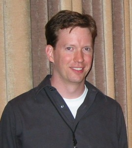 Sean M. Carroll, physicist